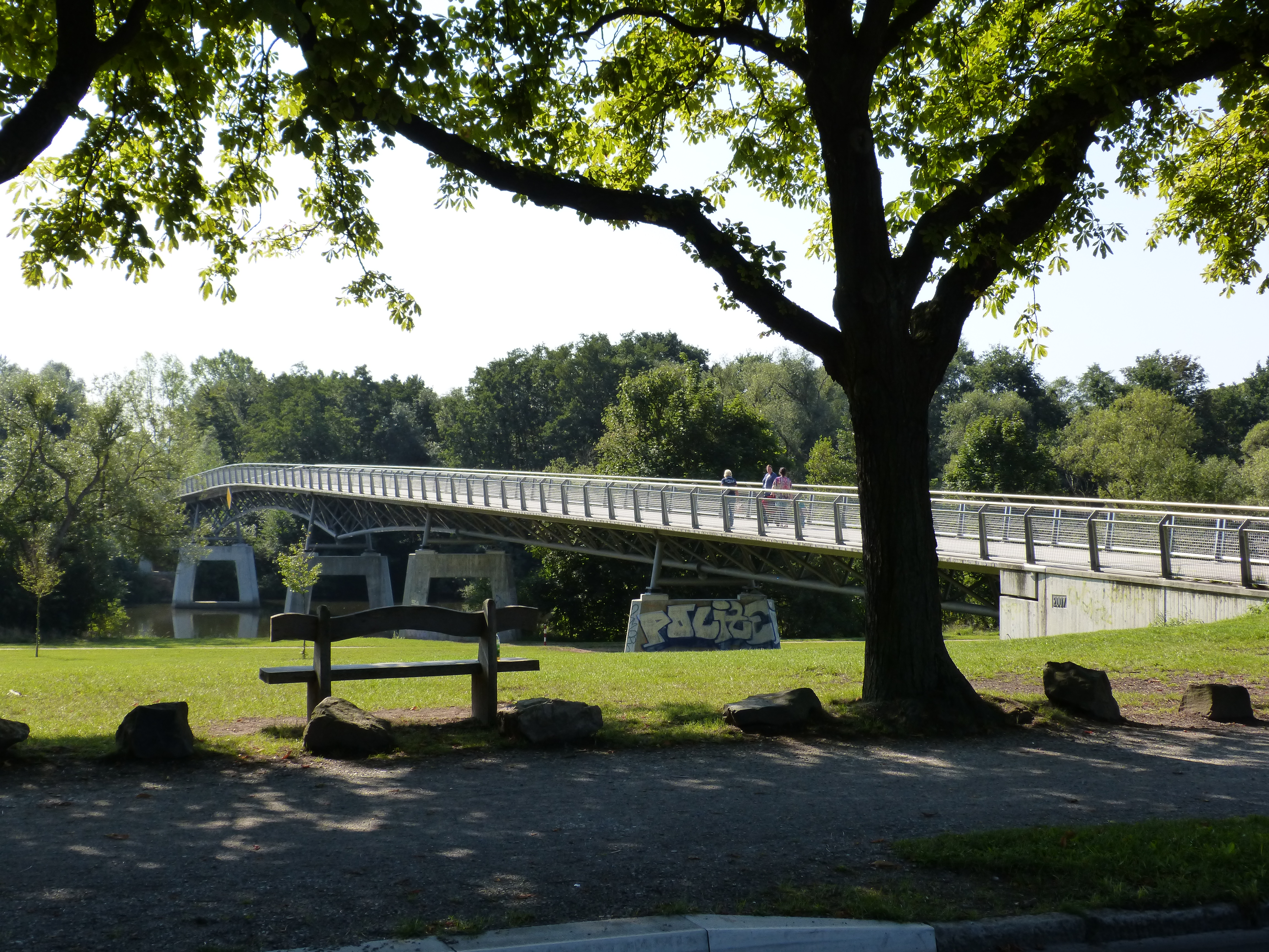 Gaertnerplatz-bridge in Kassel, Germany, deck made of UHPC